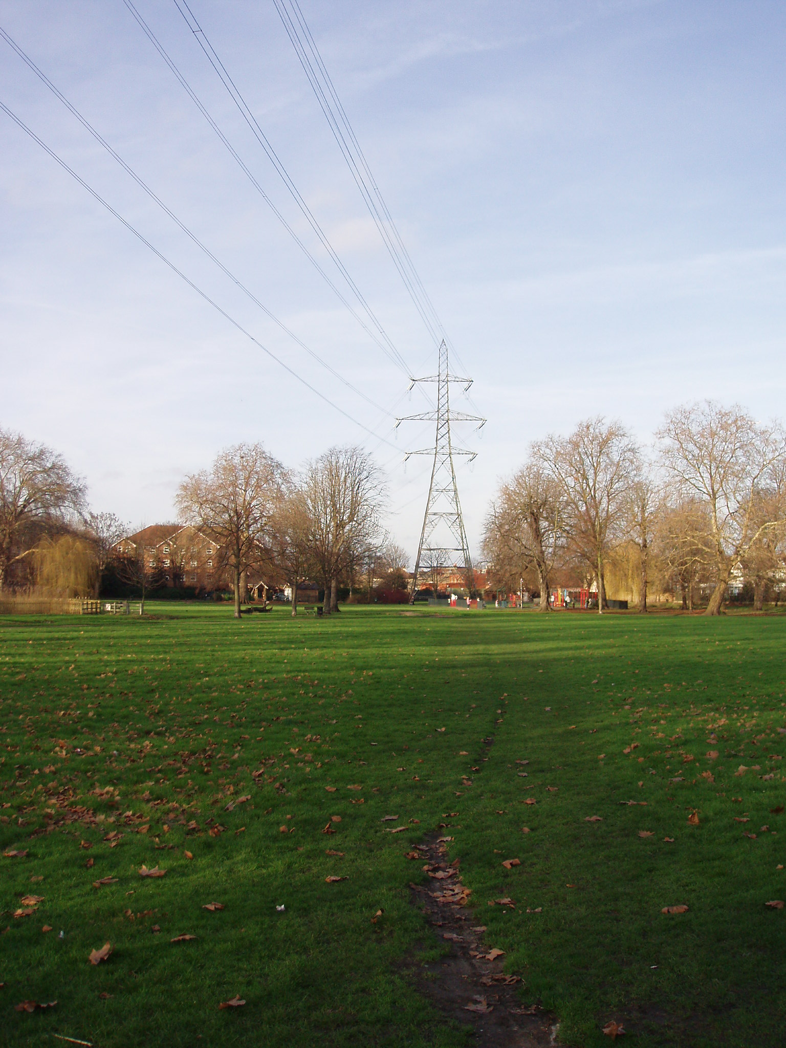 Small park near Colliers Wood station, with the River Wandle running through it. Photo taken January 2008. Owner: London Borough of Merton.